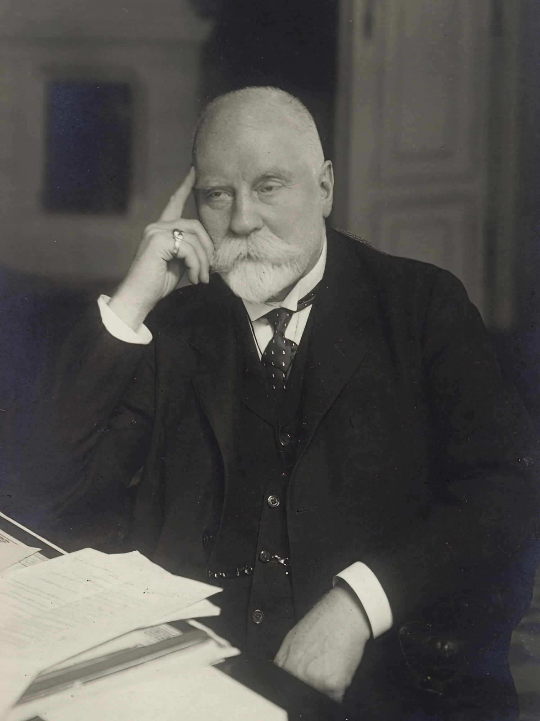 Leon Ritter von Biliński (1846-1923), Austrian-Hungarian and Polish politician. Minister of Financial Affairs of Austria-Hungary and Poland.